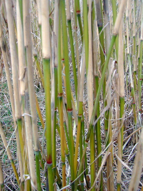 Miscanthus x giganteus stems in close up. A member of the bamboo family that grows up to 4 metres high. It is increasingly being promoted as biofuel since each tonne of Miscanthus burnt, in replacement of coal, will prevent up to two tonnes of carbon dioxide being emitted. In addition, the growing of the crop is likely to also become a means of saving carbon, as the crop actively sequesters amounts below ground.